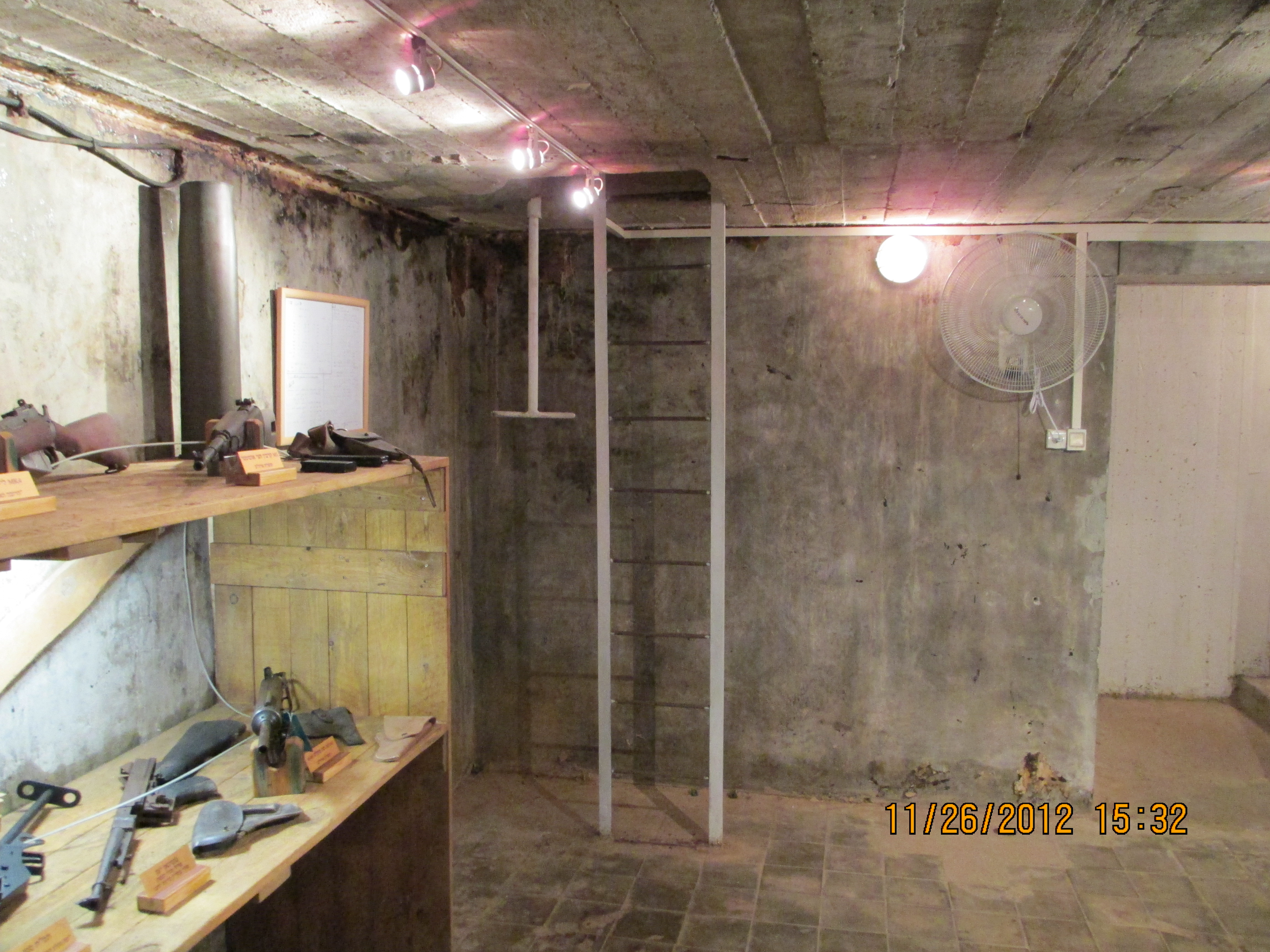 Slik (arms cache) in Kibbutz Ramat Yohanan